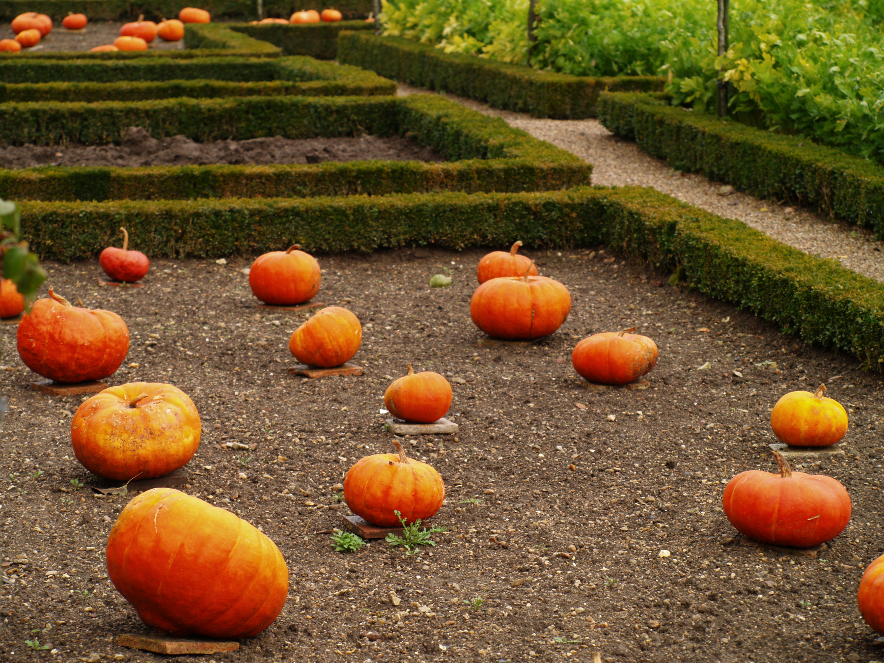 Villandry Castle (Indre-et-Loire, France): winter squashes in the kitchen garden